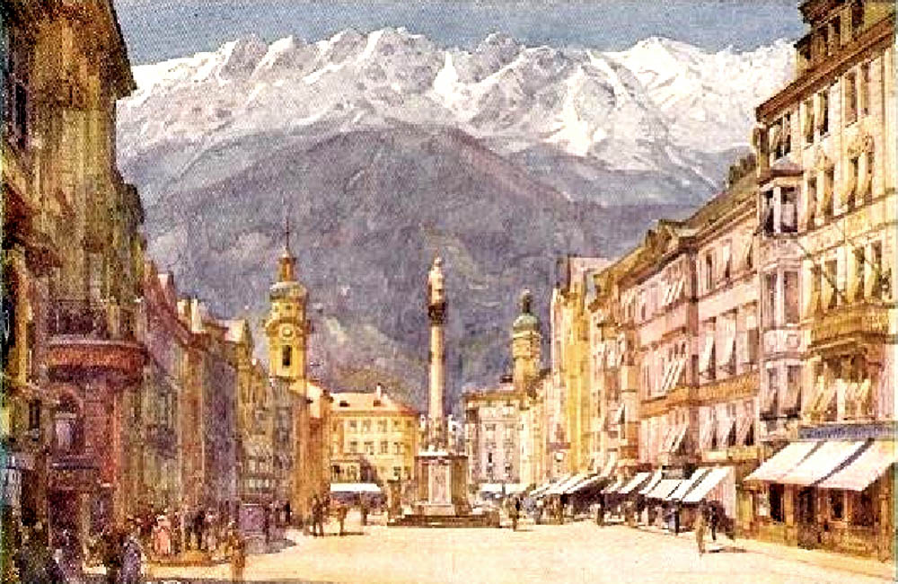 Maria-Theresien-Straße about 1900 (postcard)